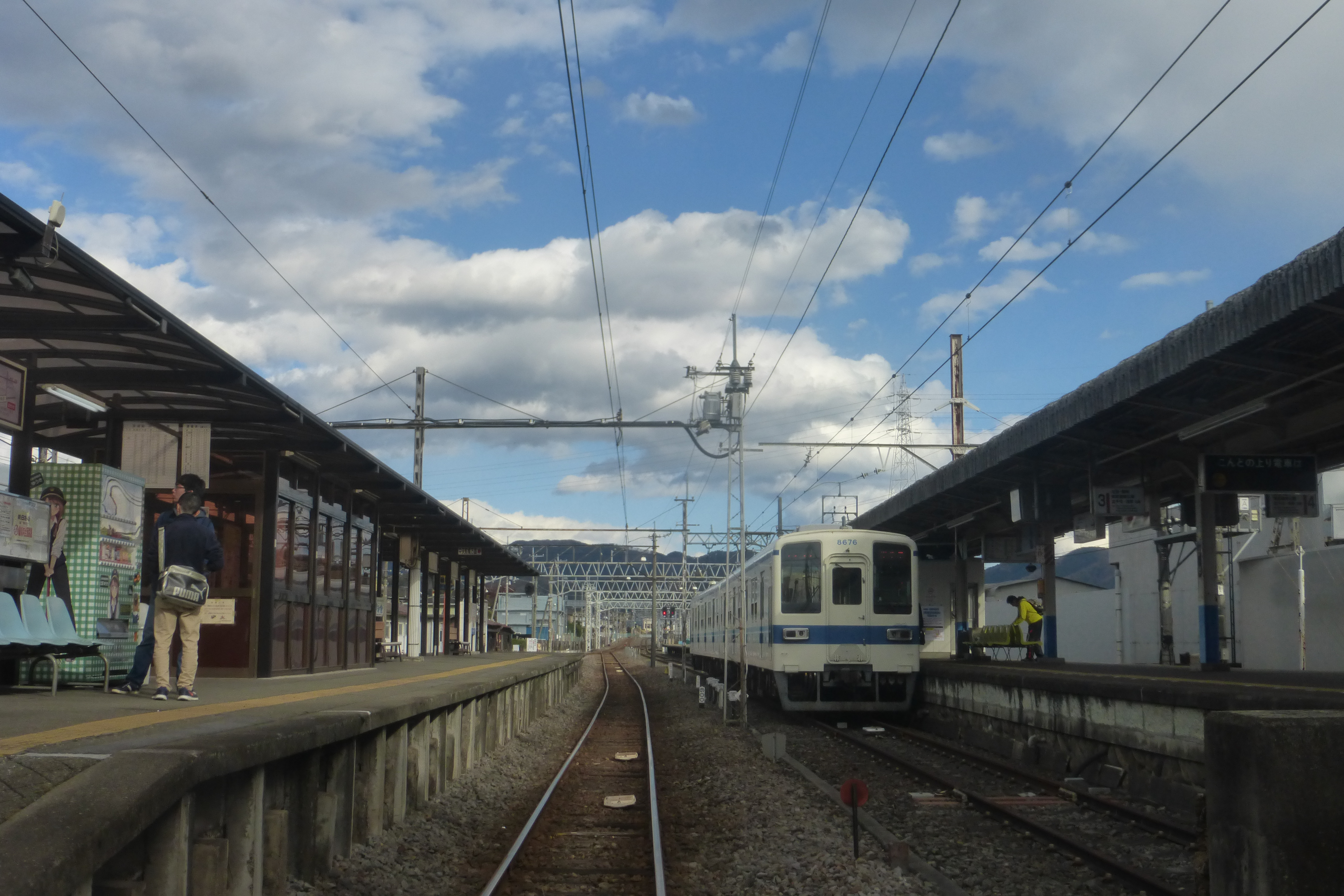 Akagi Station platforms (赤城駅のホーム)